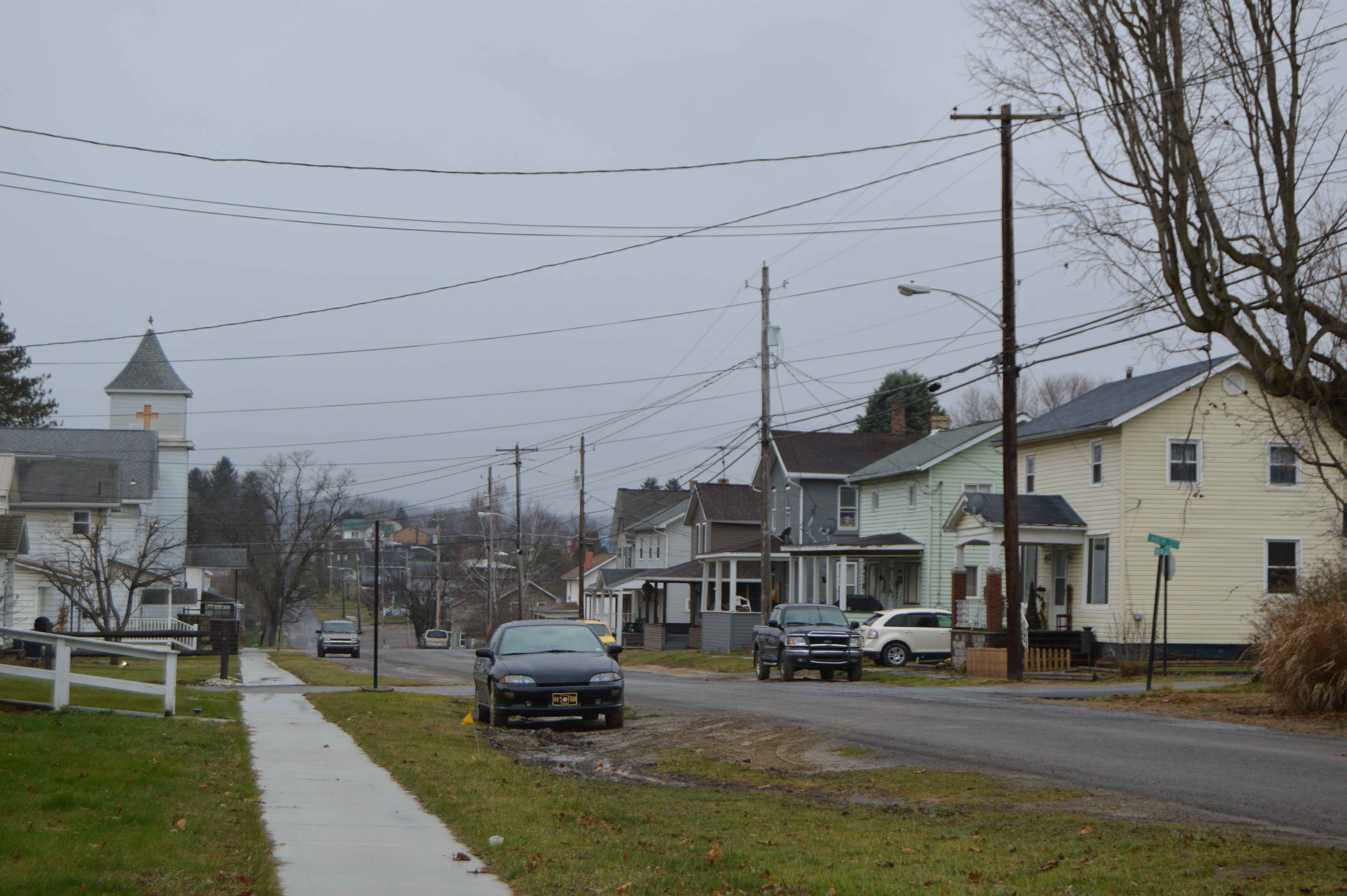 Looking westward on Main Street from the Chestnut Street intersection in Hawthorn, Pennsylvania, United States.